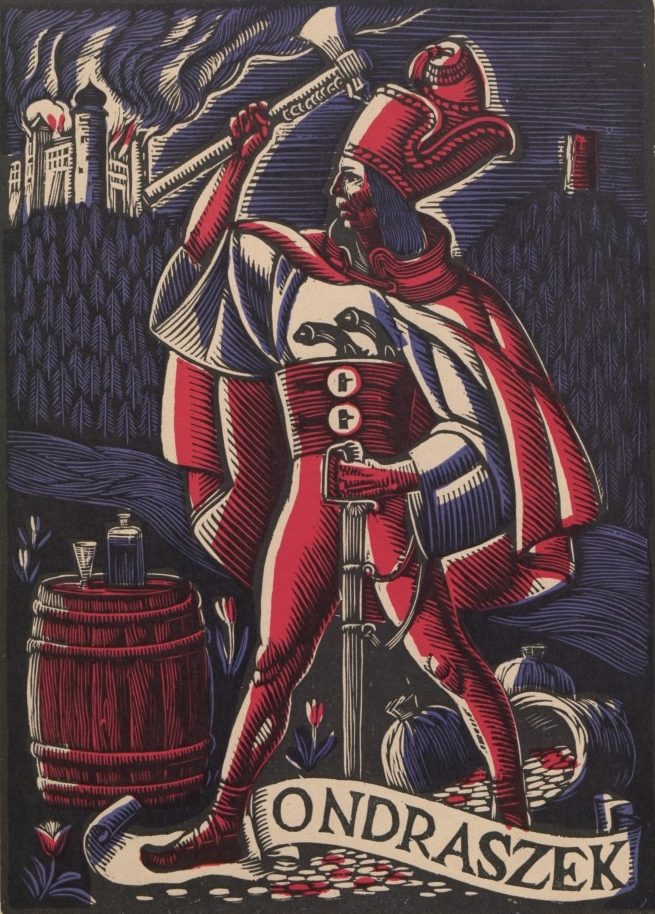 Ondraszek woodcut of Władysław Skoczylas (1883-1934)